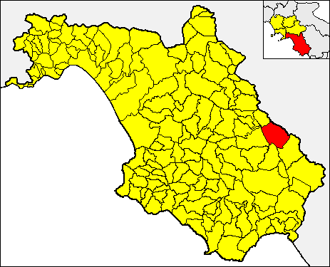 Locator map of the municipality of Sala Consilina (red) within the Province of Salerno